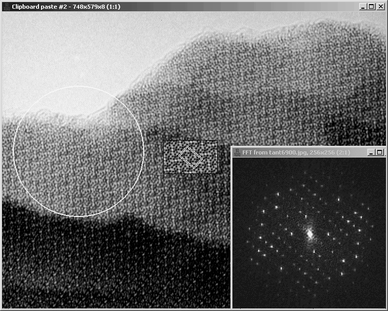 Electron microscopy image of an inorganic crystal, tantalum oxide. Inset shows the Fourier transform of the circular region. One unit cell (15 by 25 Ångström) is marked.